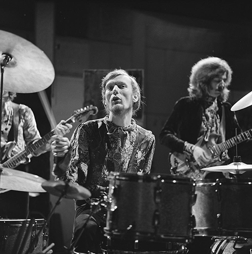 Eric Clapton (right) playing with Cream on the Dutch television show Fanclub in 1968